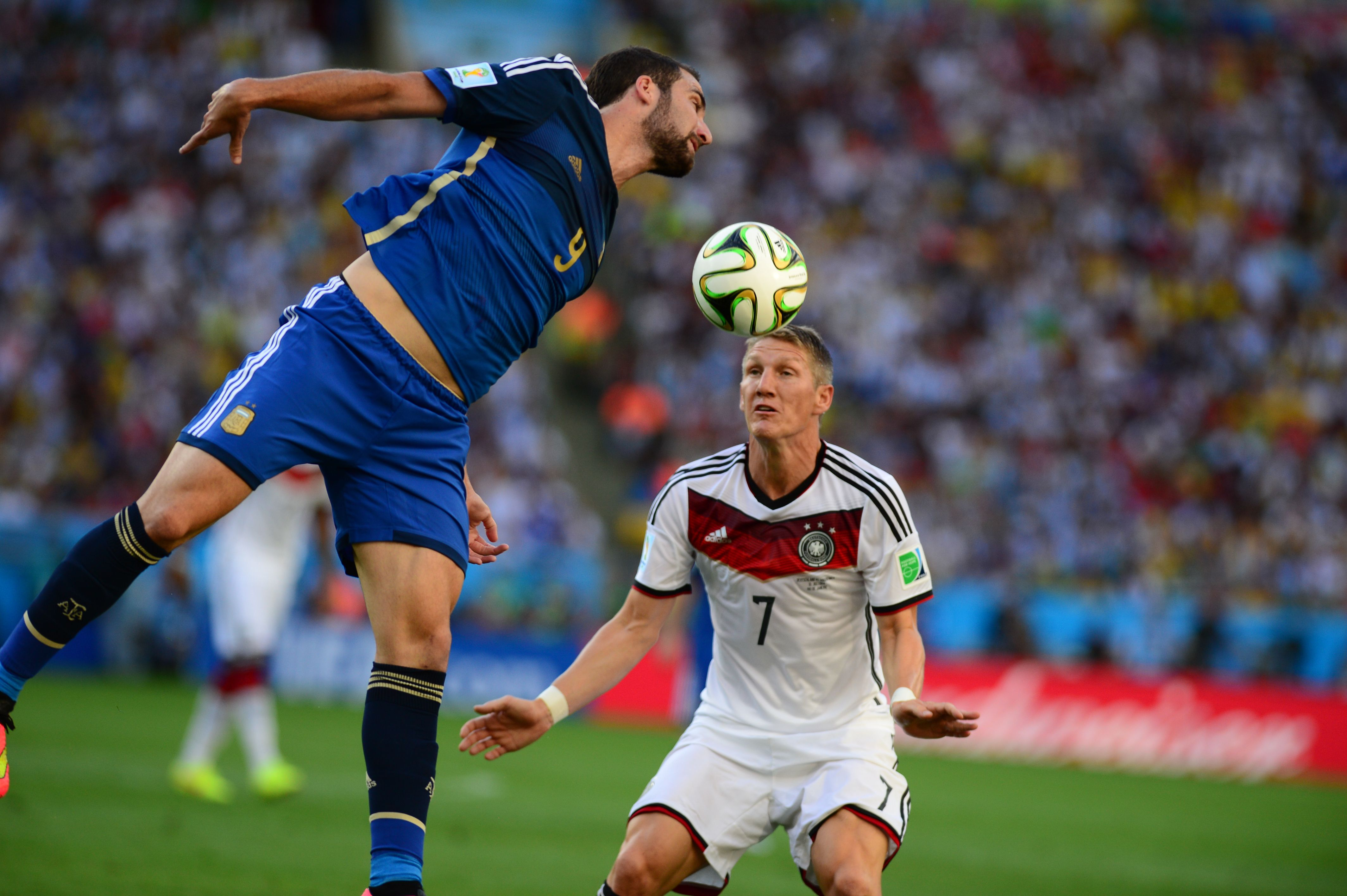 Germany and Argentina face off in the final of the World Cup